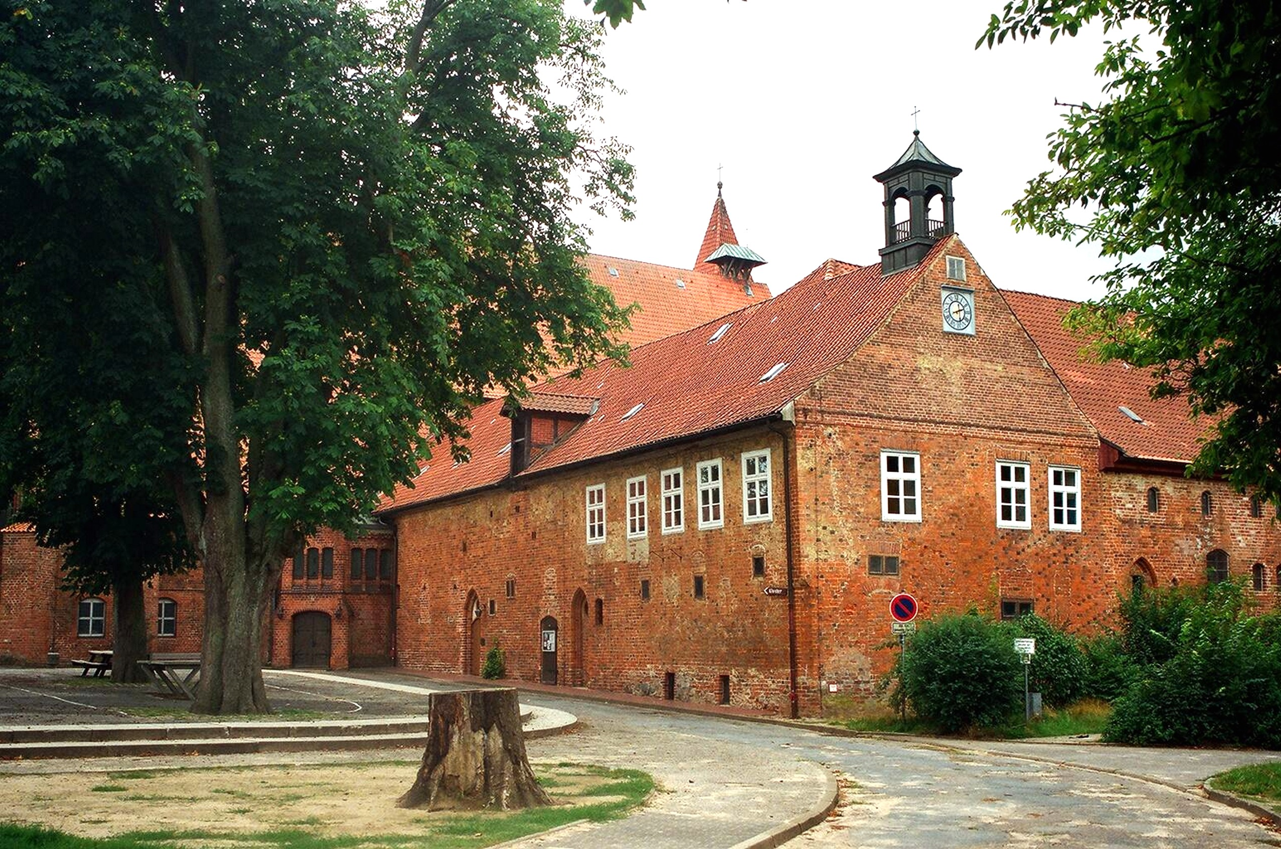 Ebstorf, the abbey